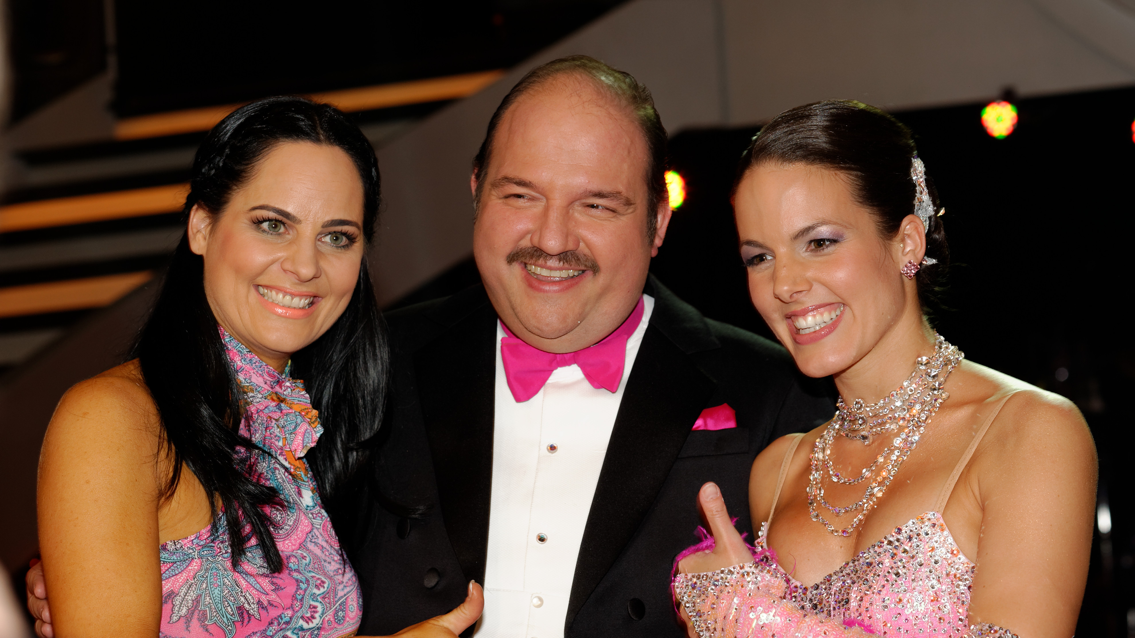 "Dancing Stars" am 5. April 2013 The making of this work was supported by Wikimedia Austria. For other files made with the support of Wikimedia Austria, please see the category Supported by Wikimedia Österreich. Nicole Burns-Hansen, Gerald Pichowetz, Roswitha Wieland